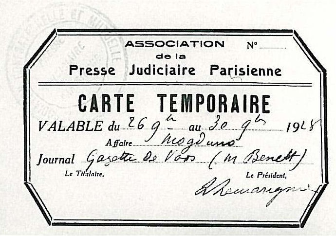 the German author Kurt Tucholsky